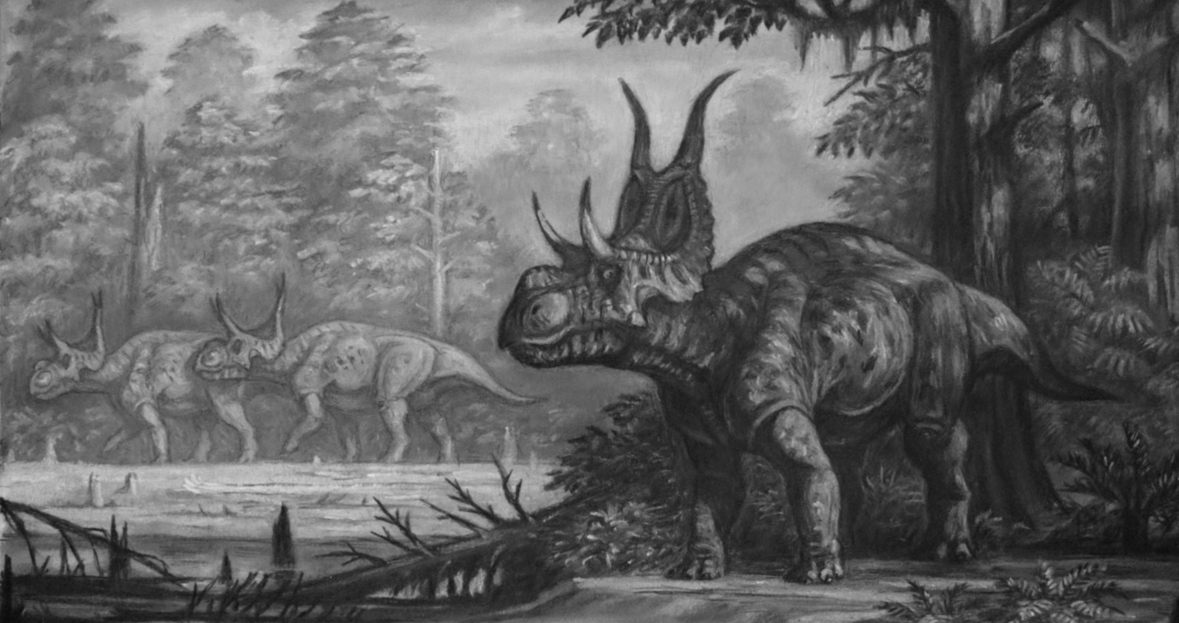 Diabloceratops in environment.